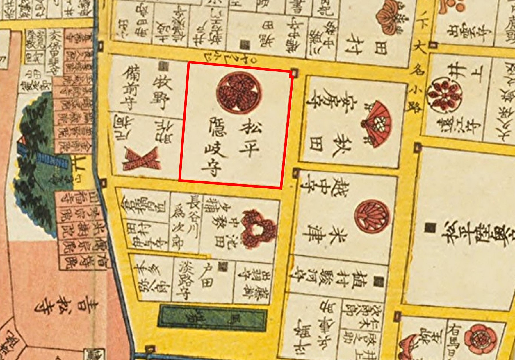 Residence of Matsuyama-han at Edo